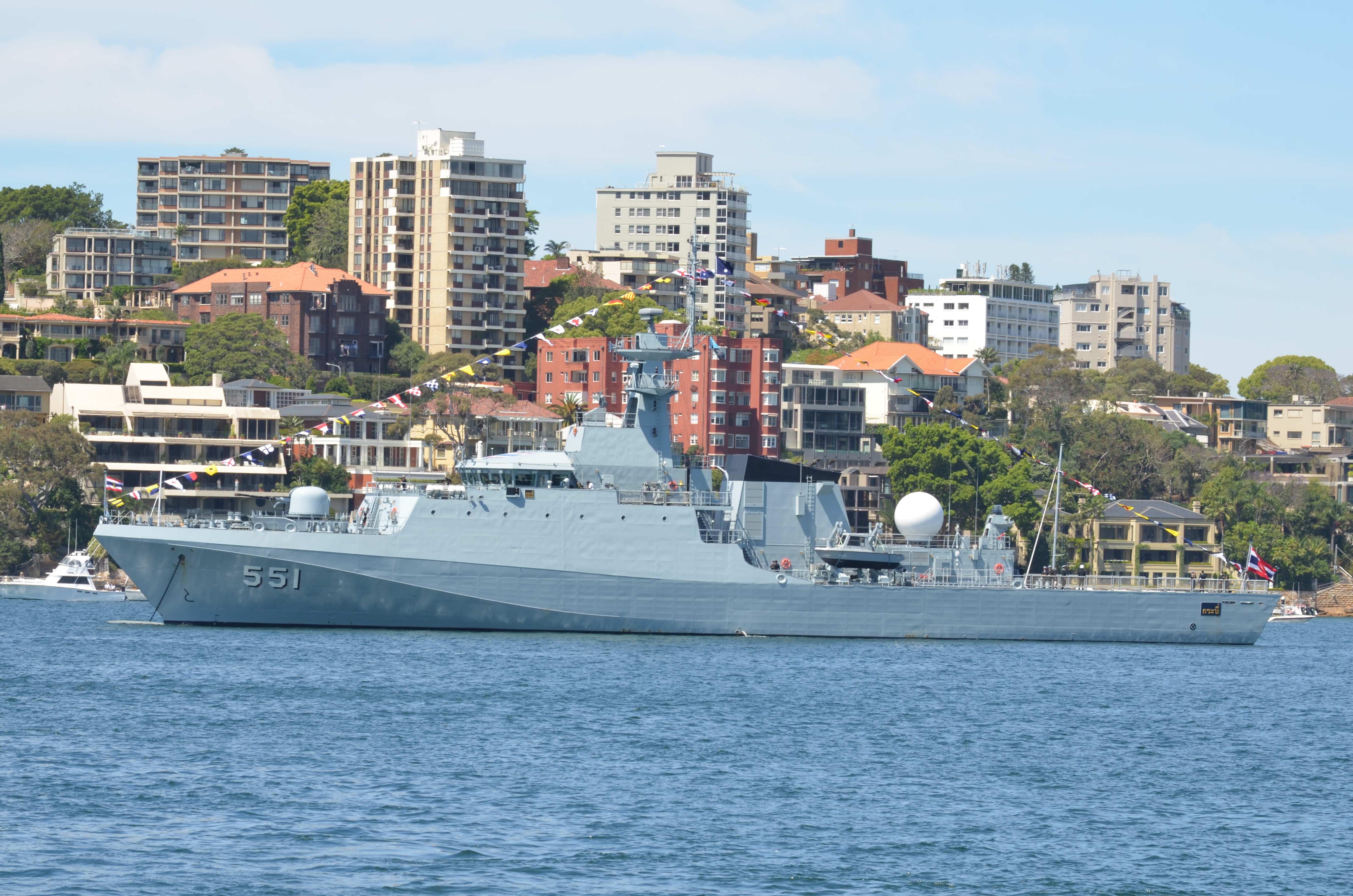 Photographs taken during day 3 of the Royal Australian Navy International Fleet Review 2013. Thai patrol vessel Krabi, moored in Sydney Harbour.